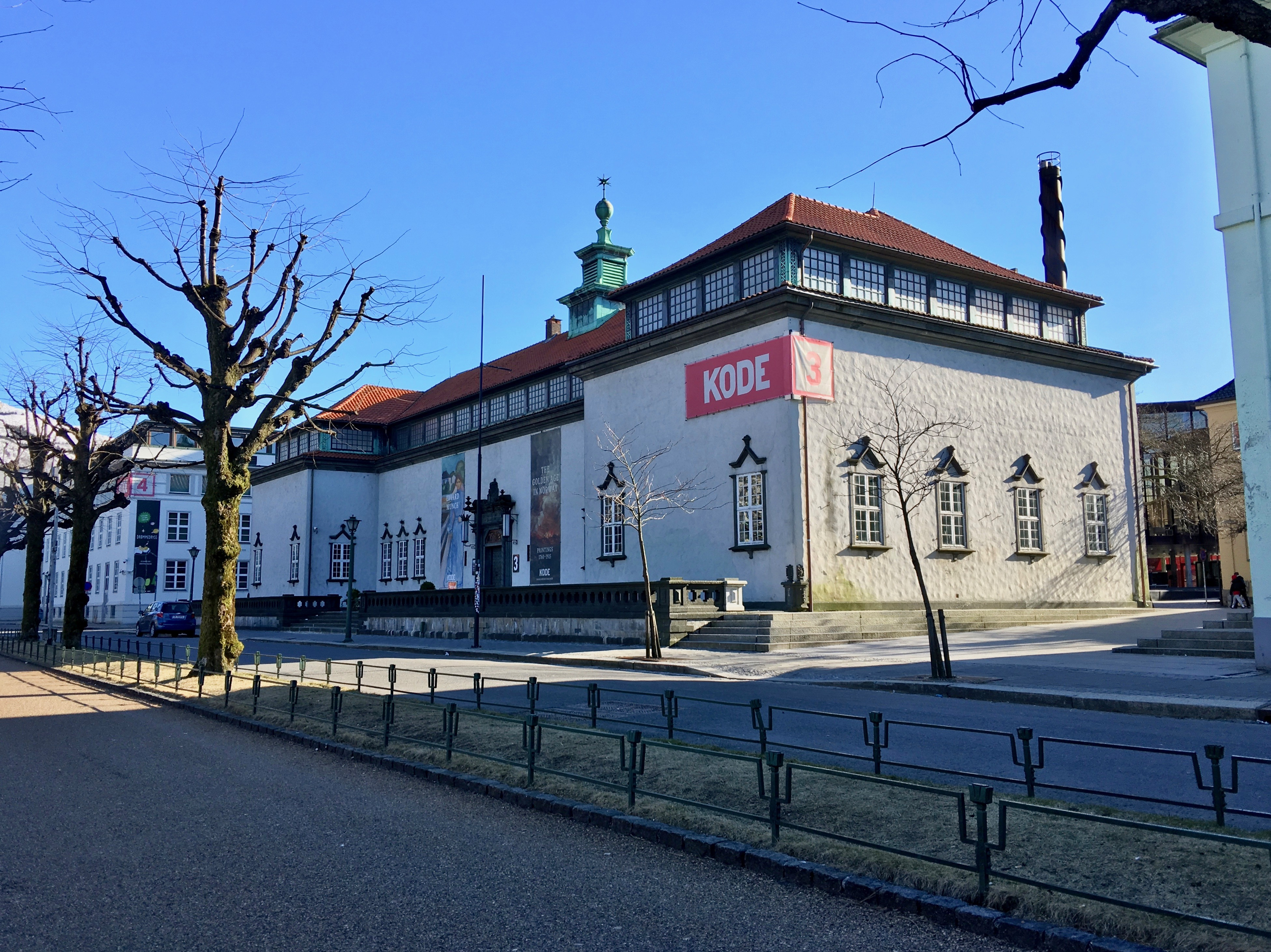 Rasmus Meyers samlinger KODE 3 art museum in central Bergen, Norway. Exhibitions of Edvard Munch and other Norwegian paintings. 2018-03-18.